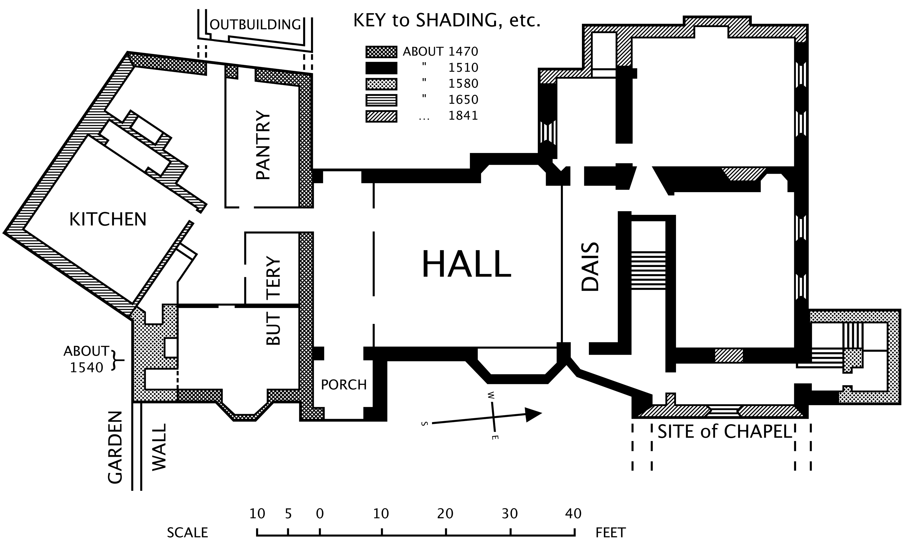 A diagram or blueprint of Horham Hall.